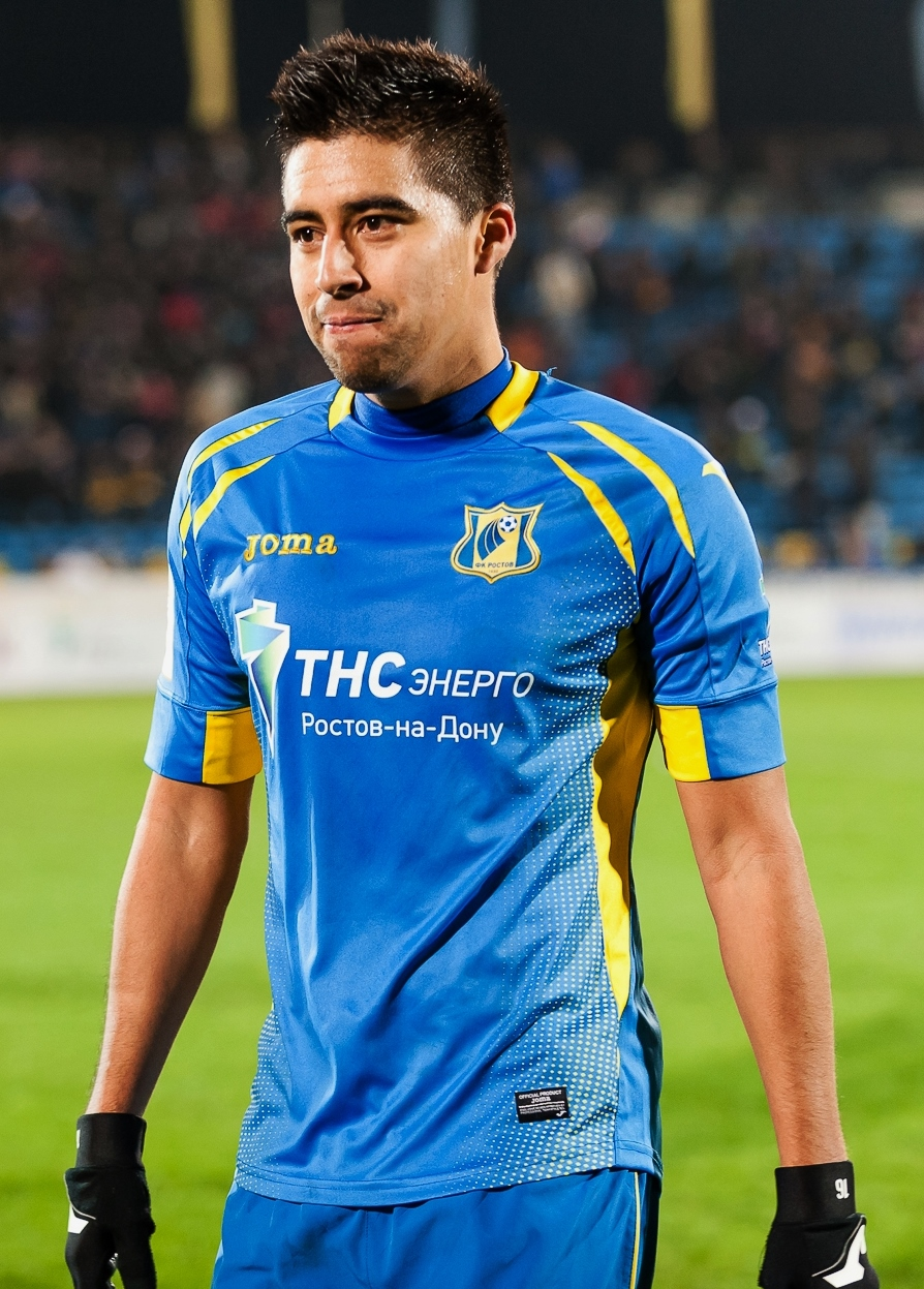 Christian Noboa